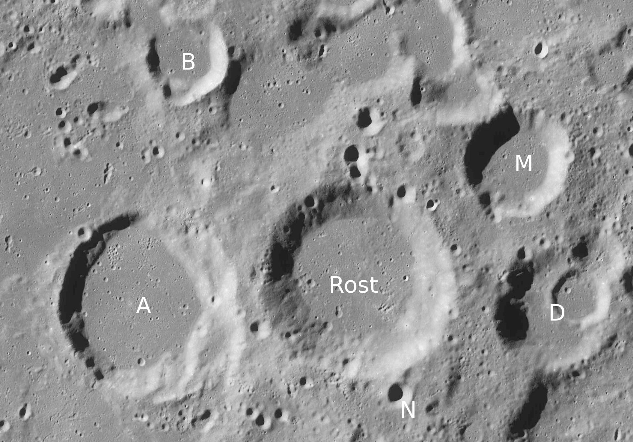 Crater Rost with satellite features (detail of LRO - WAC global moon mosaic; Mercator projection)